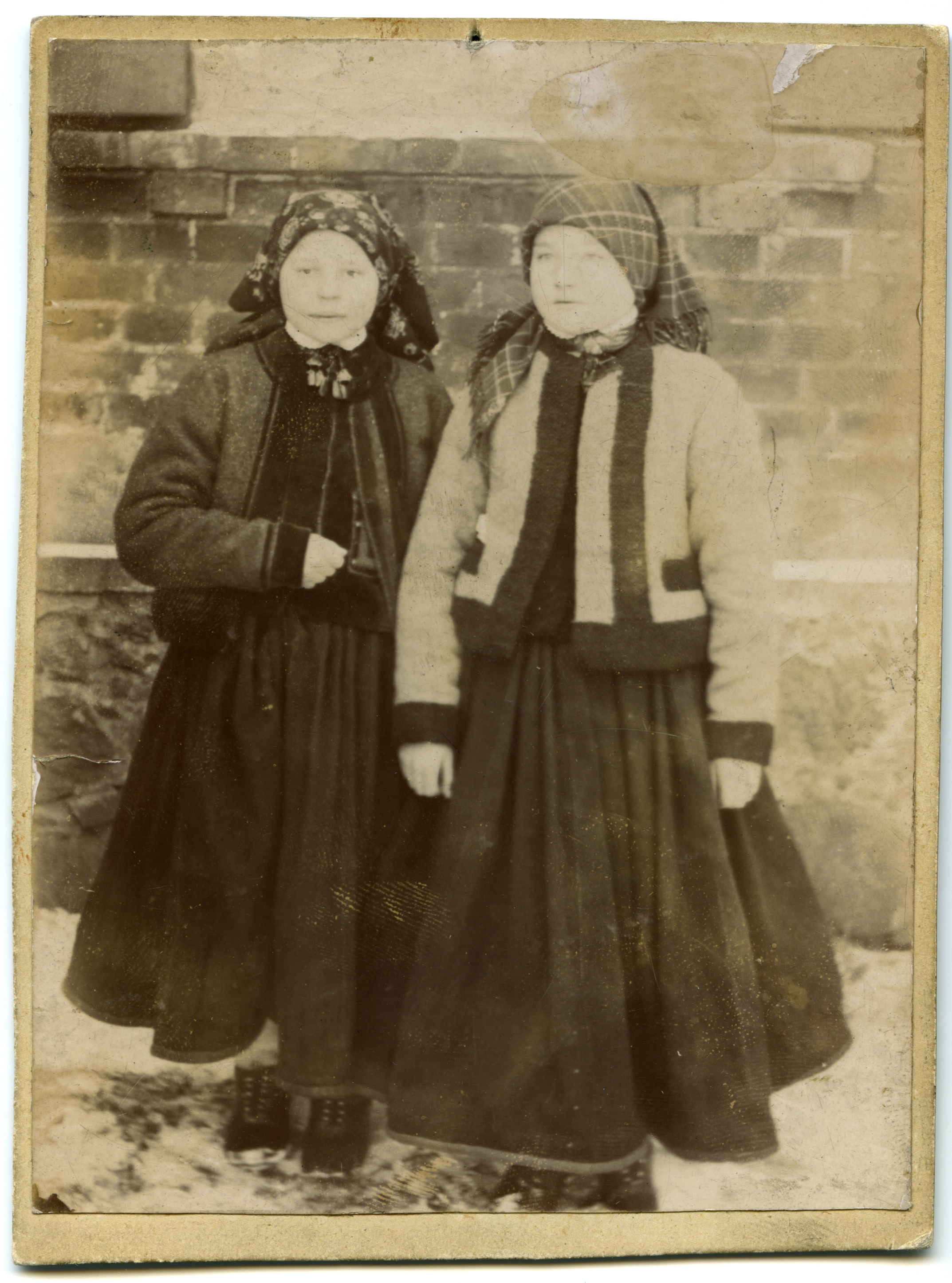 Girls from Nīca parish in Grobiņa region wearing traditional clothing